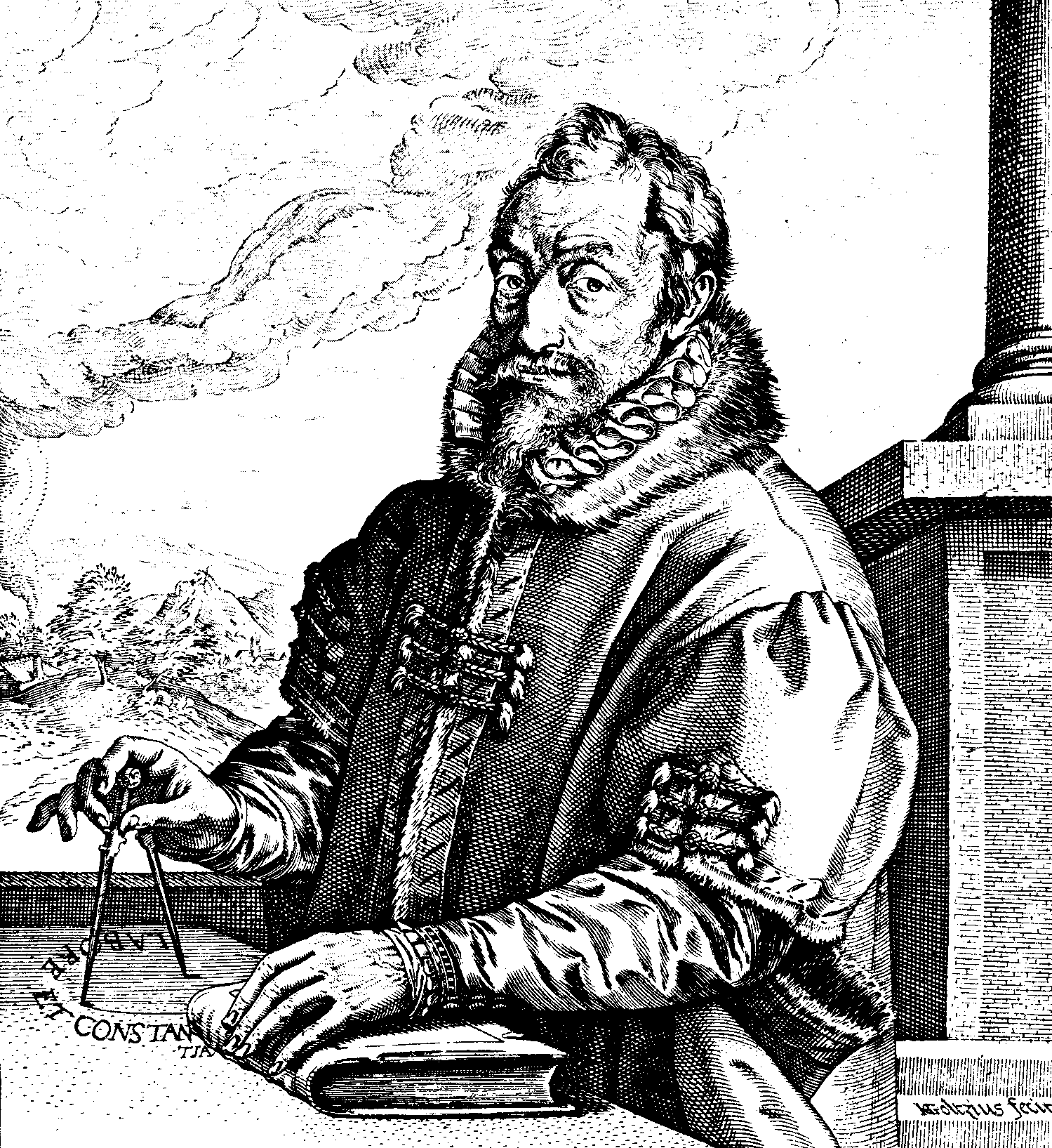 Christoffel Plantin